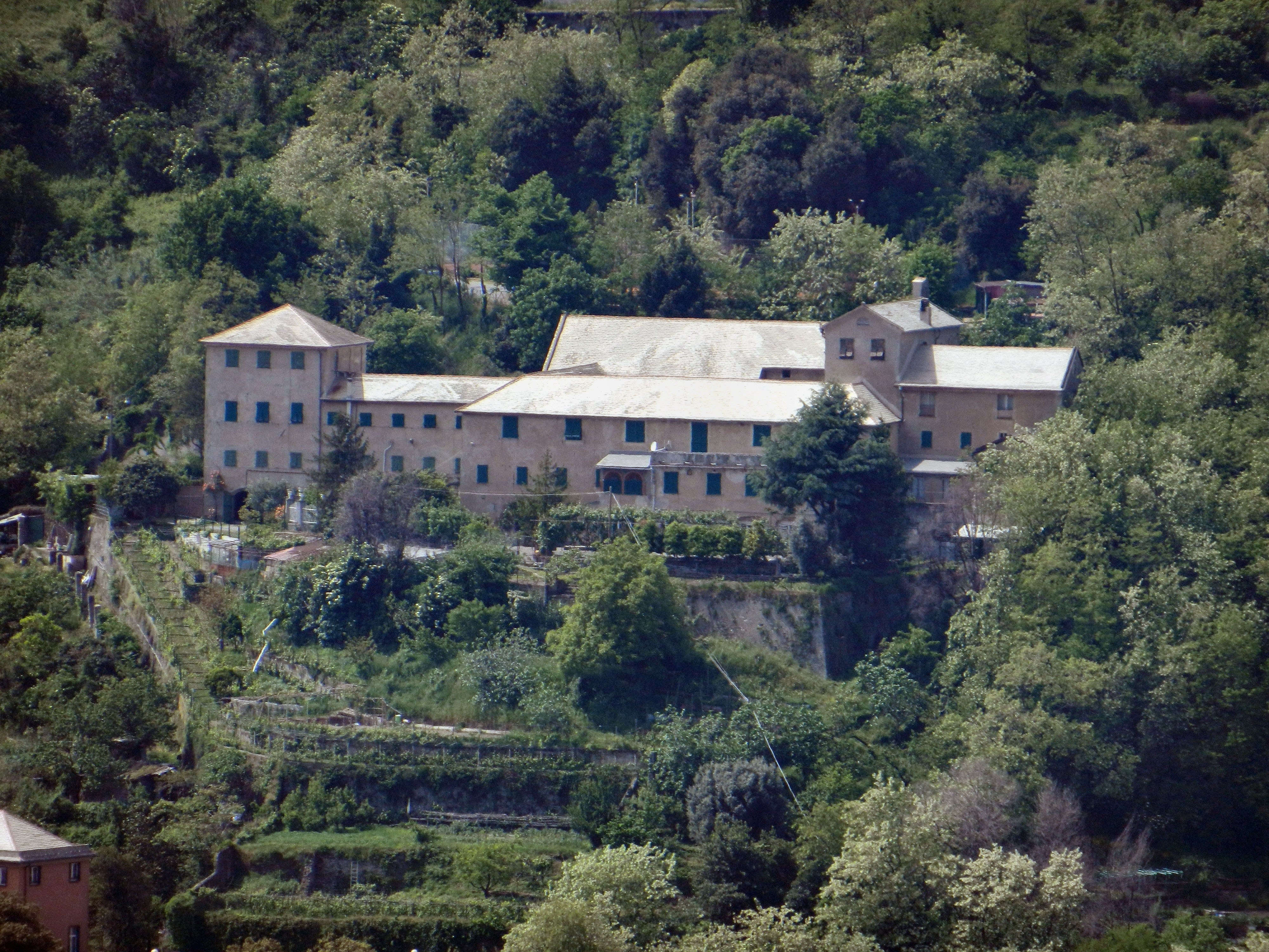 Genoa (Italy), quarter of Campi, capucine friars monastery